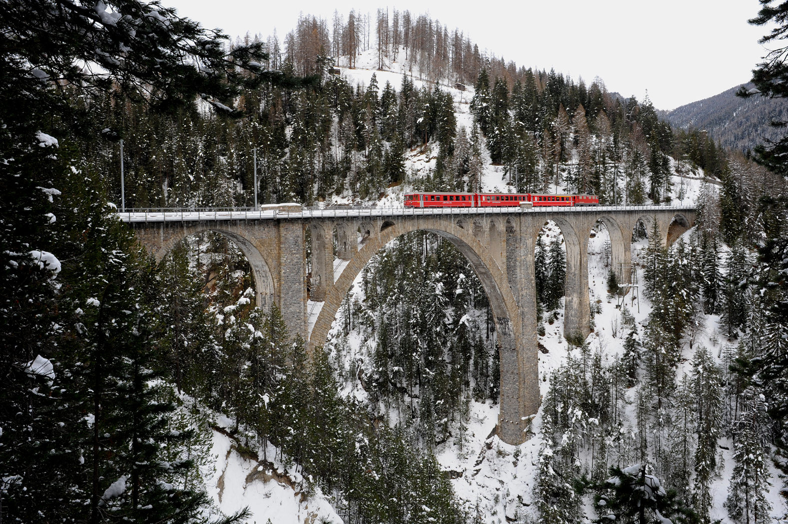 Wiesen viaduct of RhB; shuttle train with locomotive Ge 4/4 I 608 and control cab coach BDt 1721.